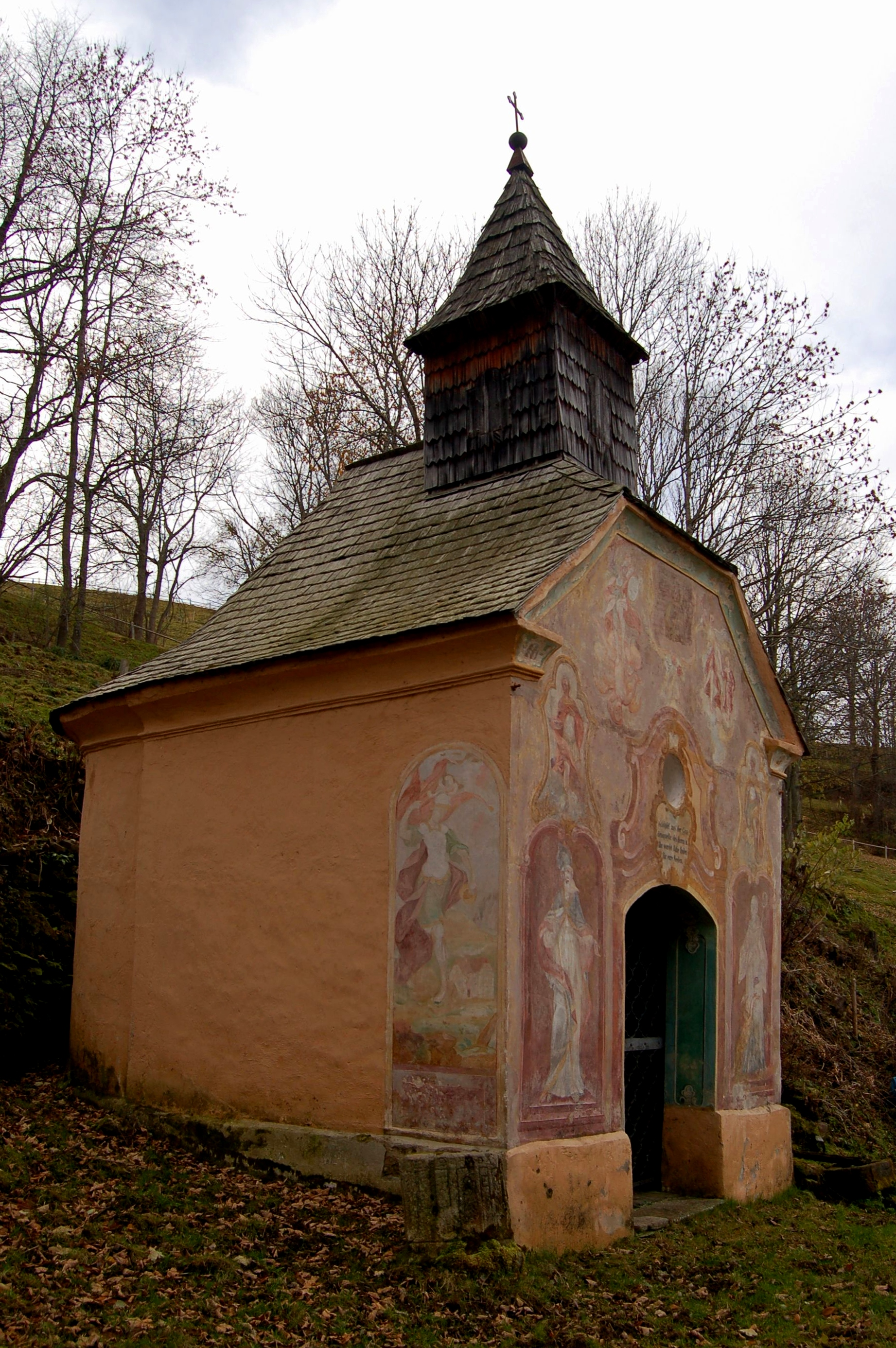 The Ägydius-Kapelle in Fischbach, Styria, was built in 1756 and is protected as a cultural heritage monument.